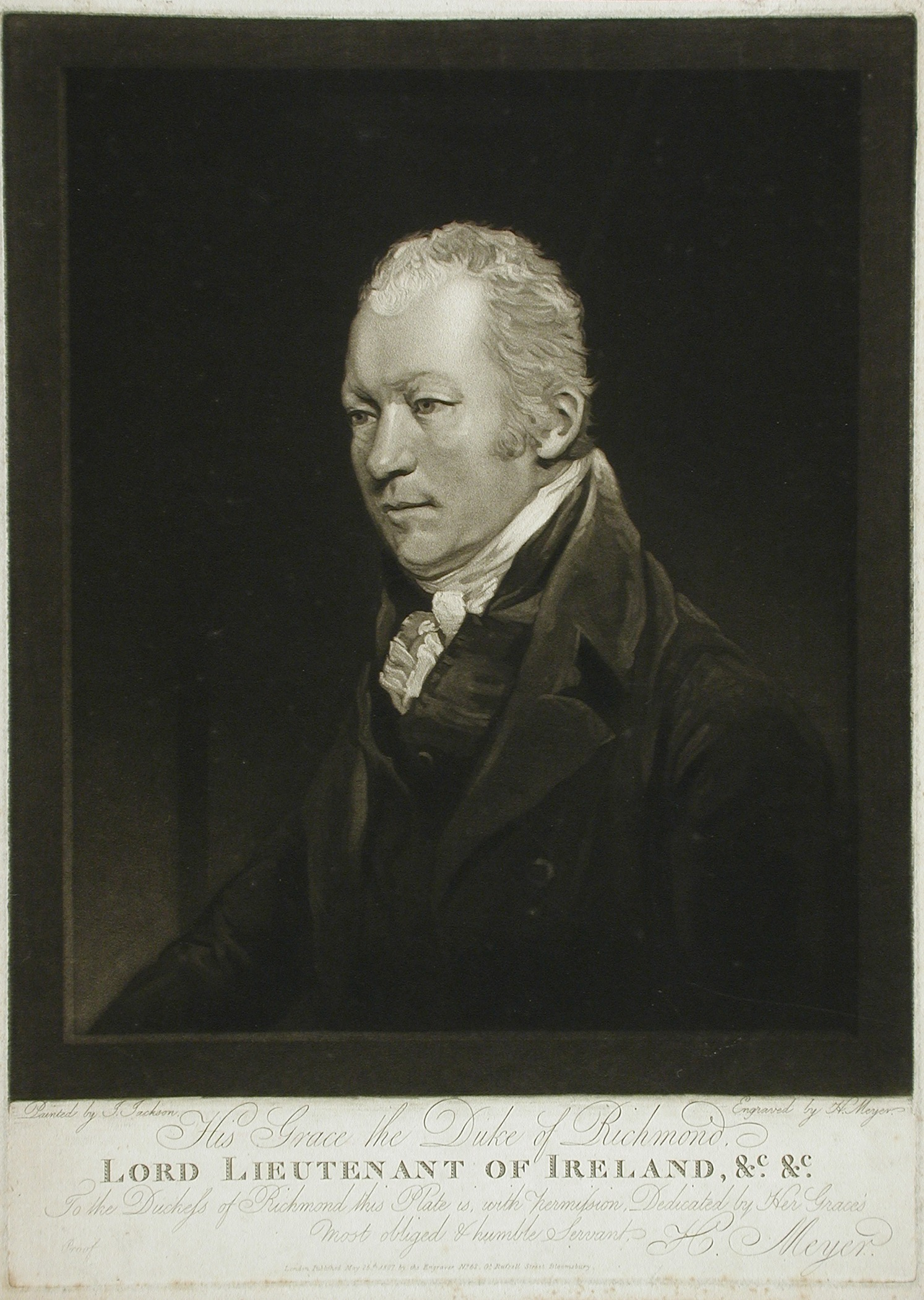 England, 1807 Prints; mezzotints Mezzotint Gift of Alfred and Esther Norris (M.83.318.59) Prints and Drawings